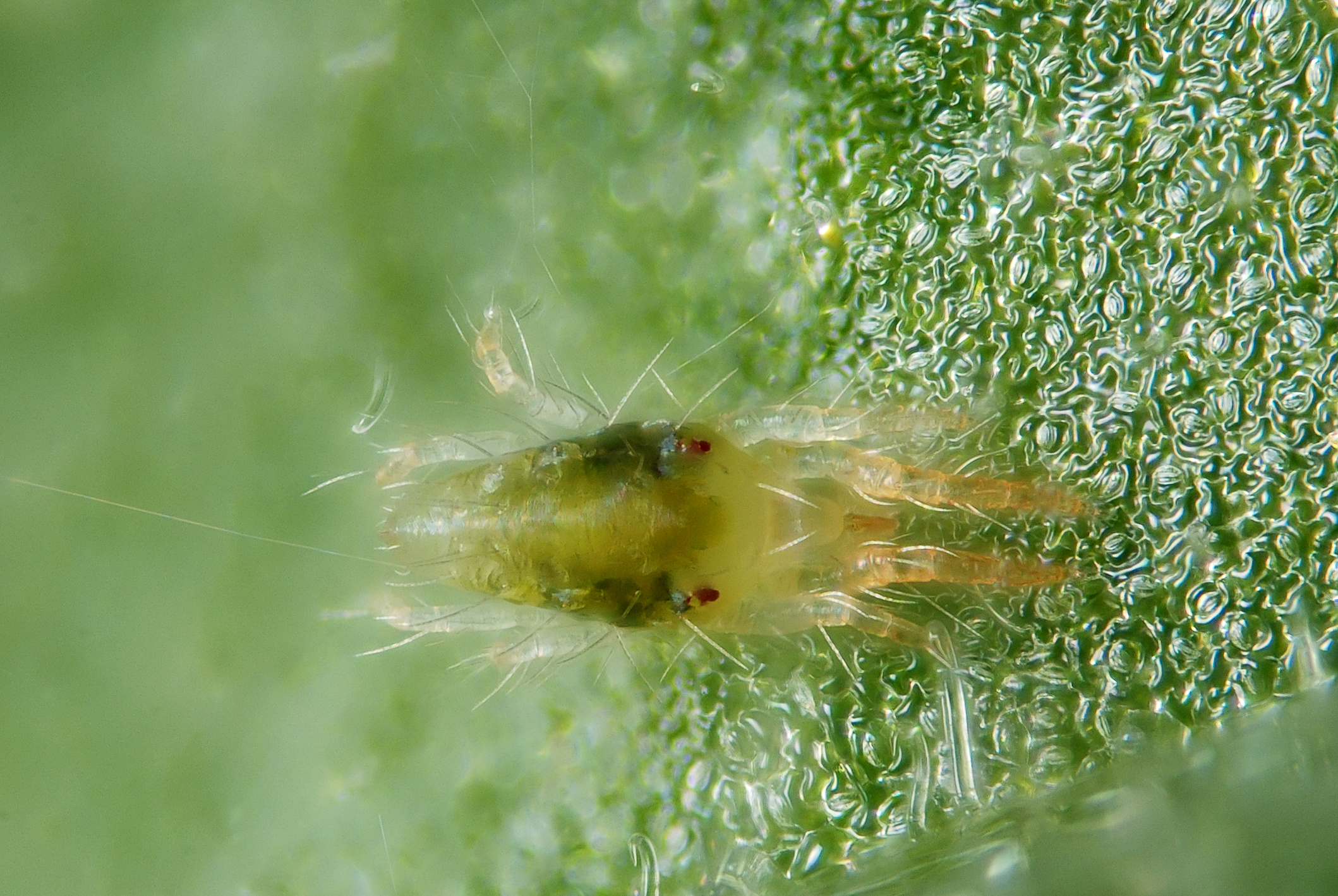 Male of the green form of the spider mite Tetranychus urticae. Scale : mite body length ~0.5 mm Technical settings : - focus stack of 16 images - microscope objective (Nikon achromatic 10x 160/0.25) on bellow (70 mm extension)